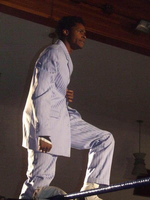 A picture of The human tornado live I took @ A PWG show in San Diego, California.